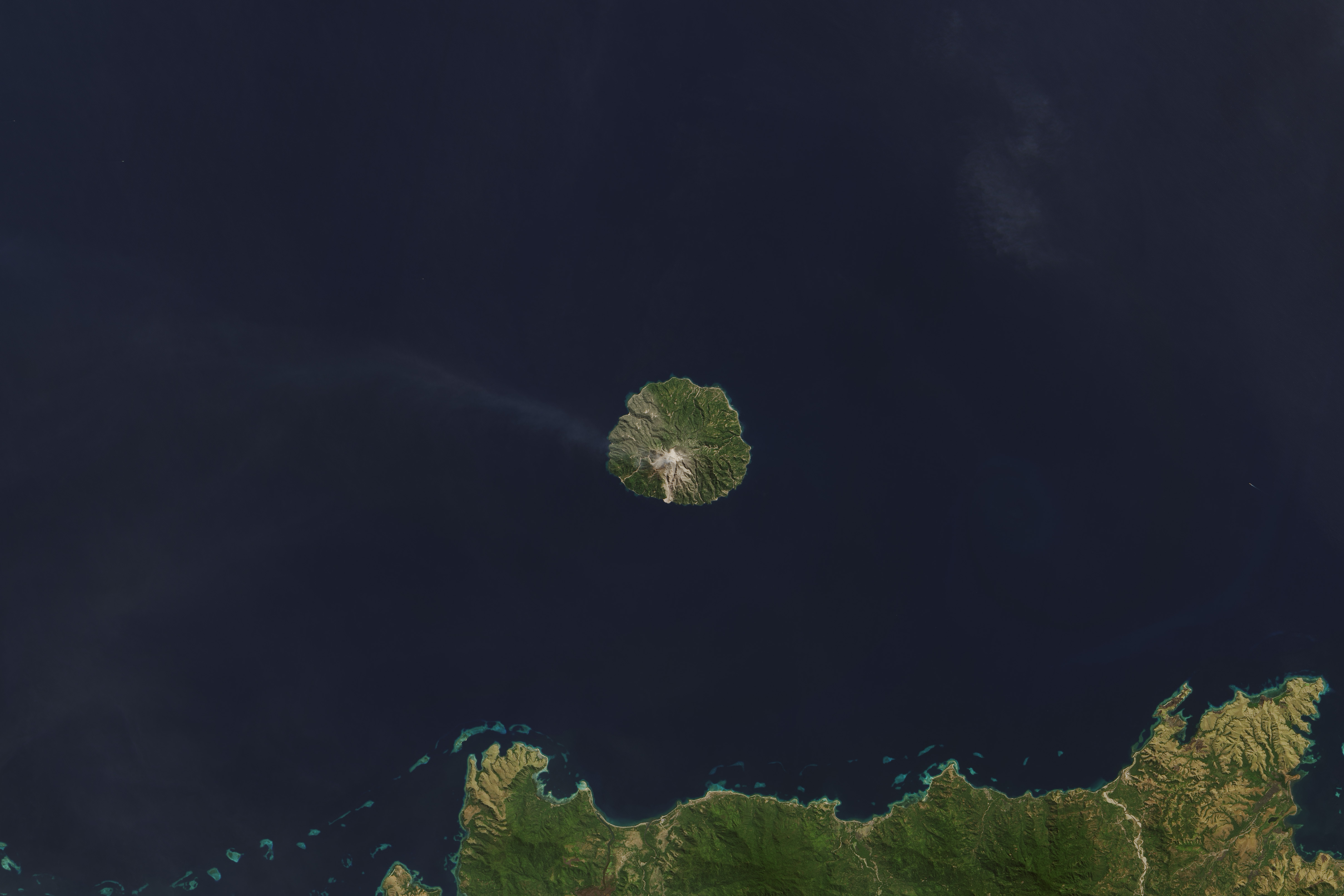 This image of Paluweh is from August 3, shortly before the eruption at August 10 that killed 5 people. The summit is visible. Also apparent is a light coating of ash on vegetation on the northwest side of the island.